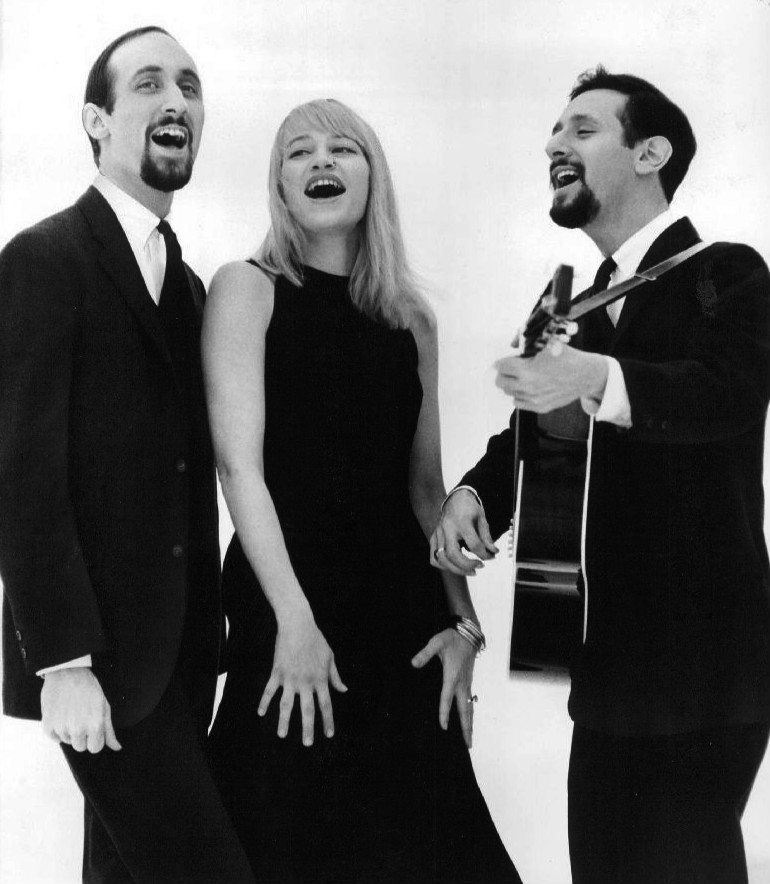 Photo of the folk singers Peter, Paul and Mary.